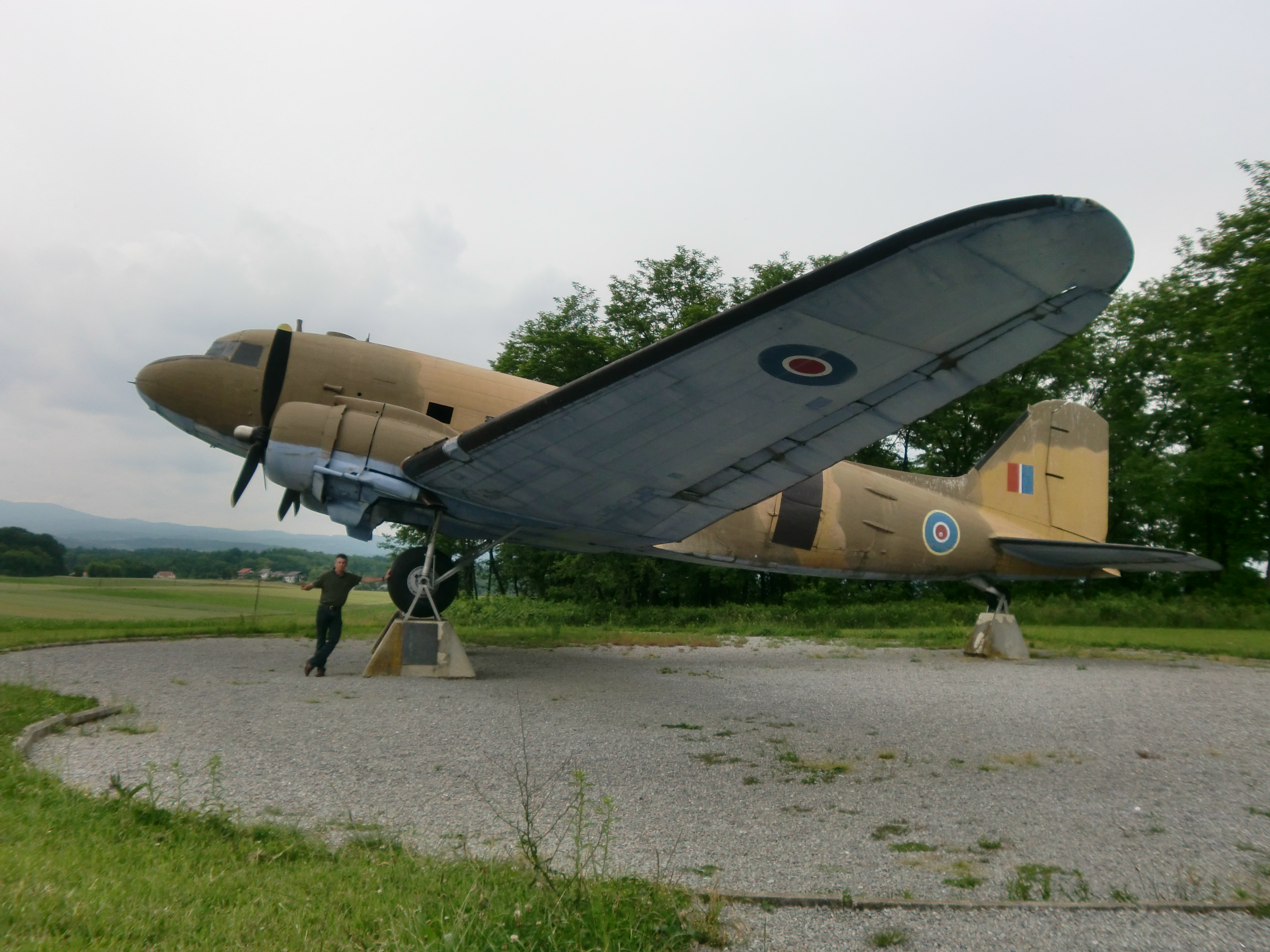 Historical DC-3 airplane as memorial of the partisan airport (code name EKG 2) in Otok Bela krajina region, Slovenia) during World War II